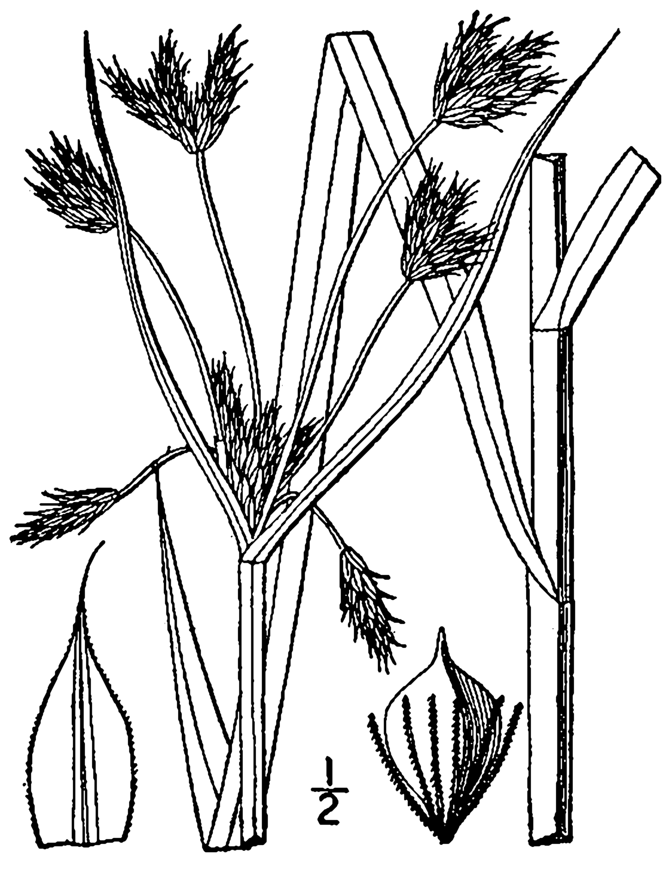 Bolboschoenus fluviatilis (Torr.) Soják (1972) - river bulrush